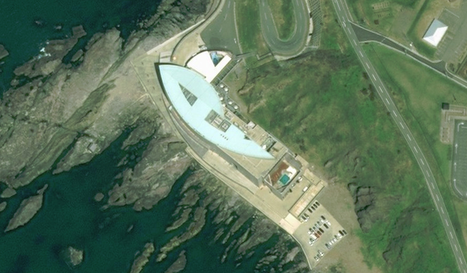 Oga Aquarium Gao